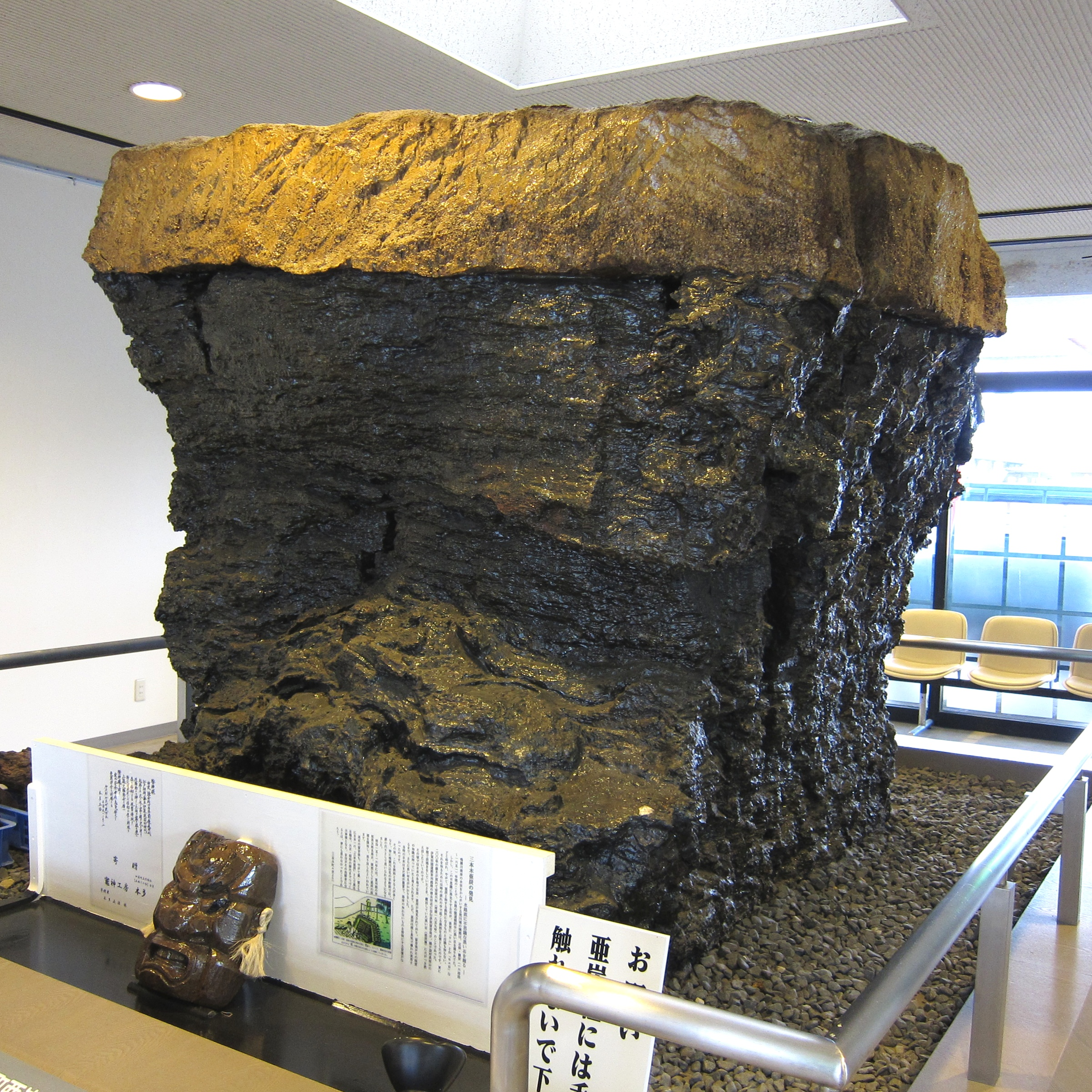 A 10-ton lignite displayed at Sanbongi Atan Kinenkan (Sanbongi Lignite Memorial Hall) in Osaki City, Miyagi Prefecture, Japan